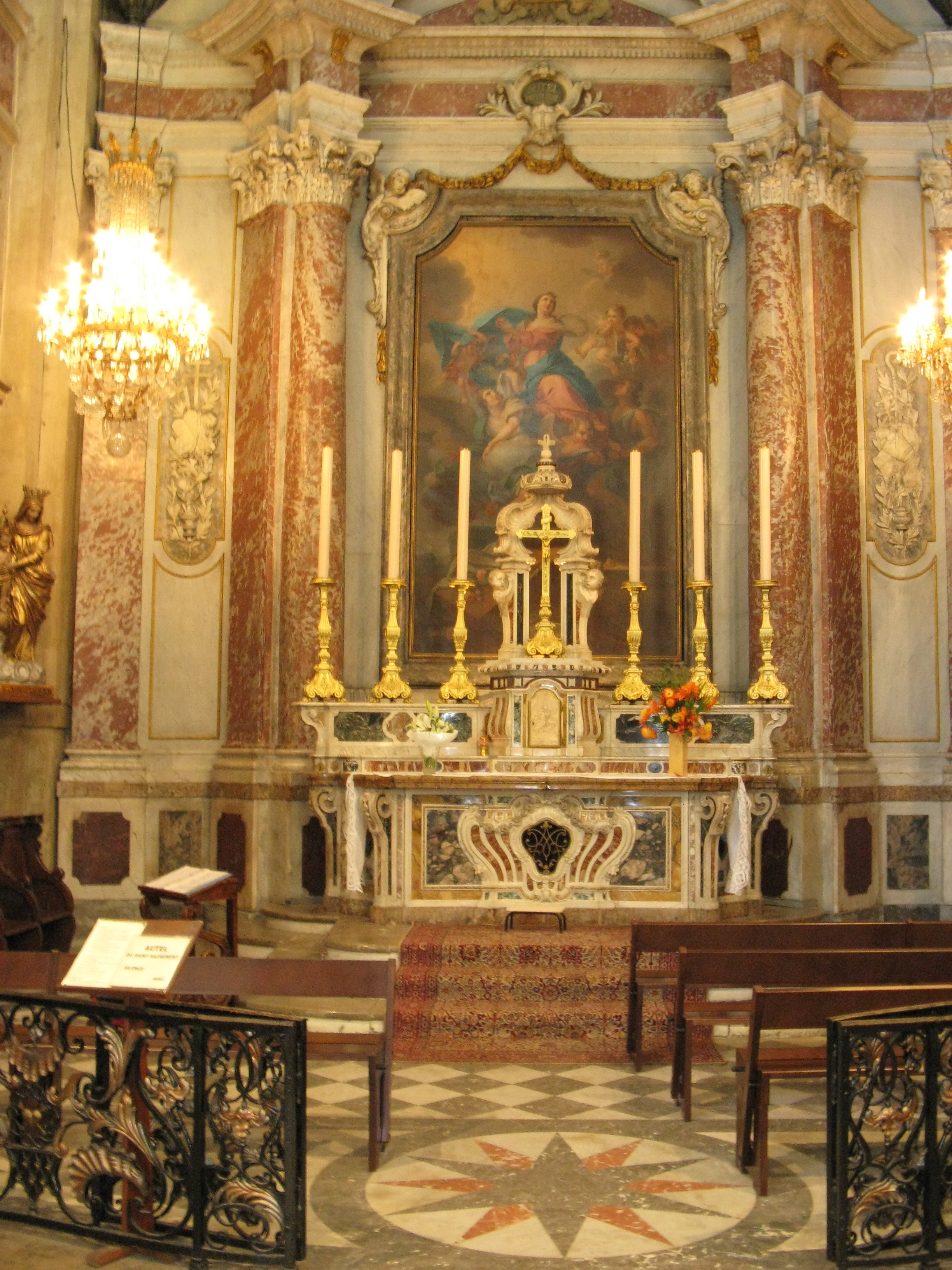 Cathedral of Dax, altar